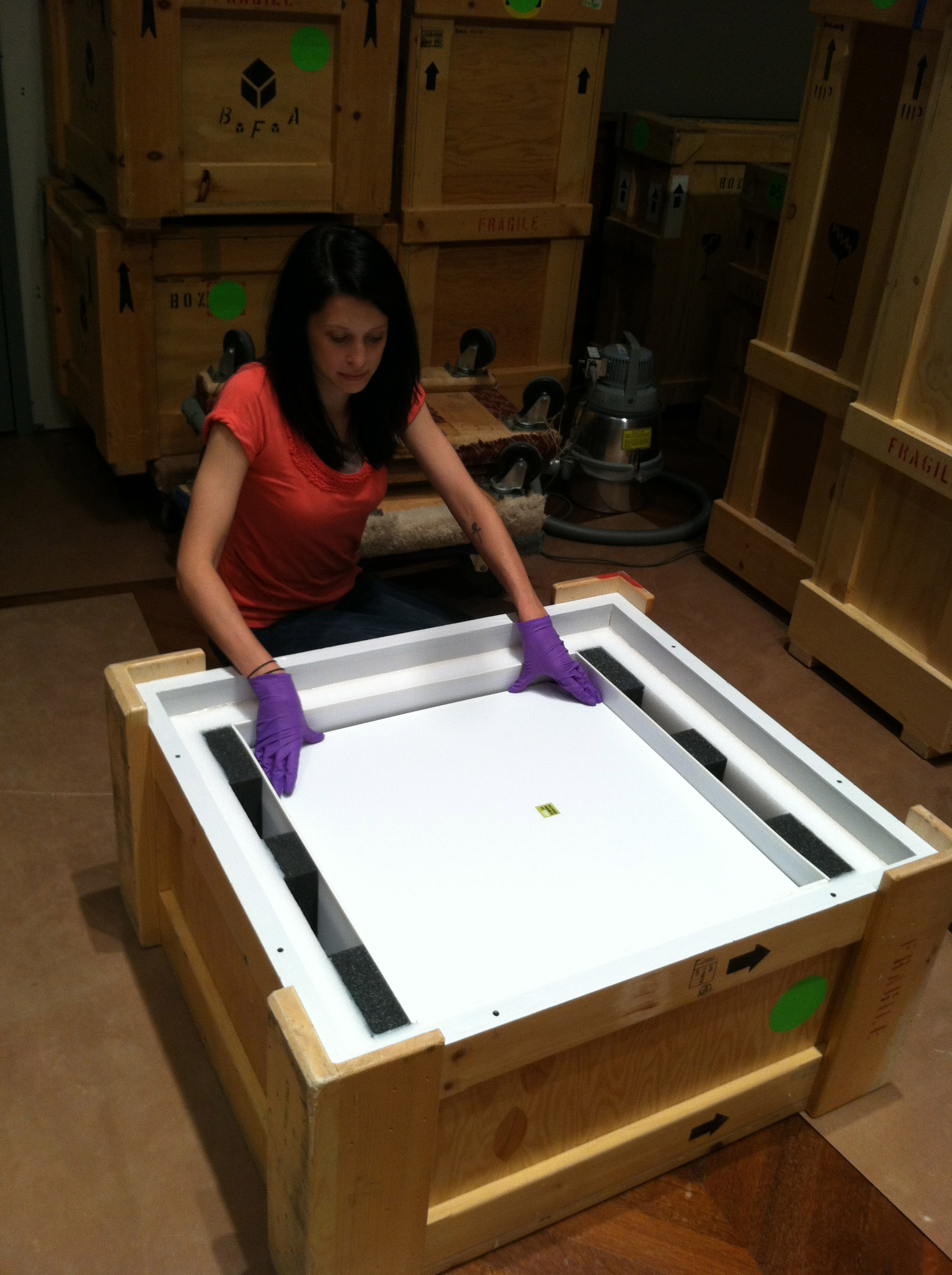 A preparator (art handler) carefully packs artwork in preparation for shipment. Proper materials and methods must be use to ensure the safety of the artwork during the shipment process.